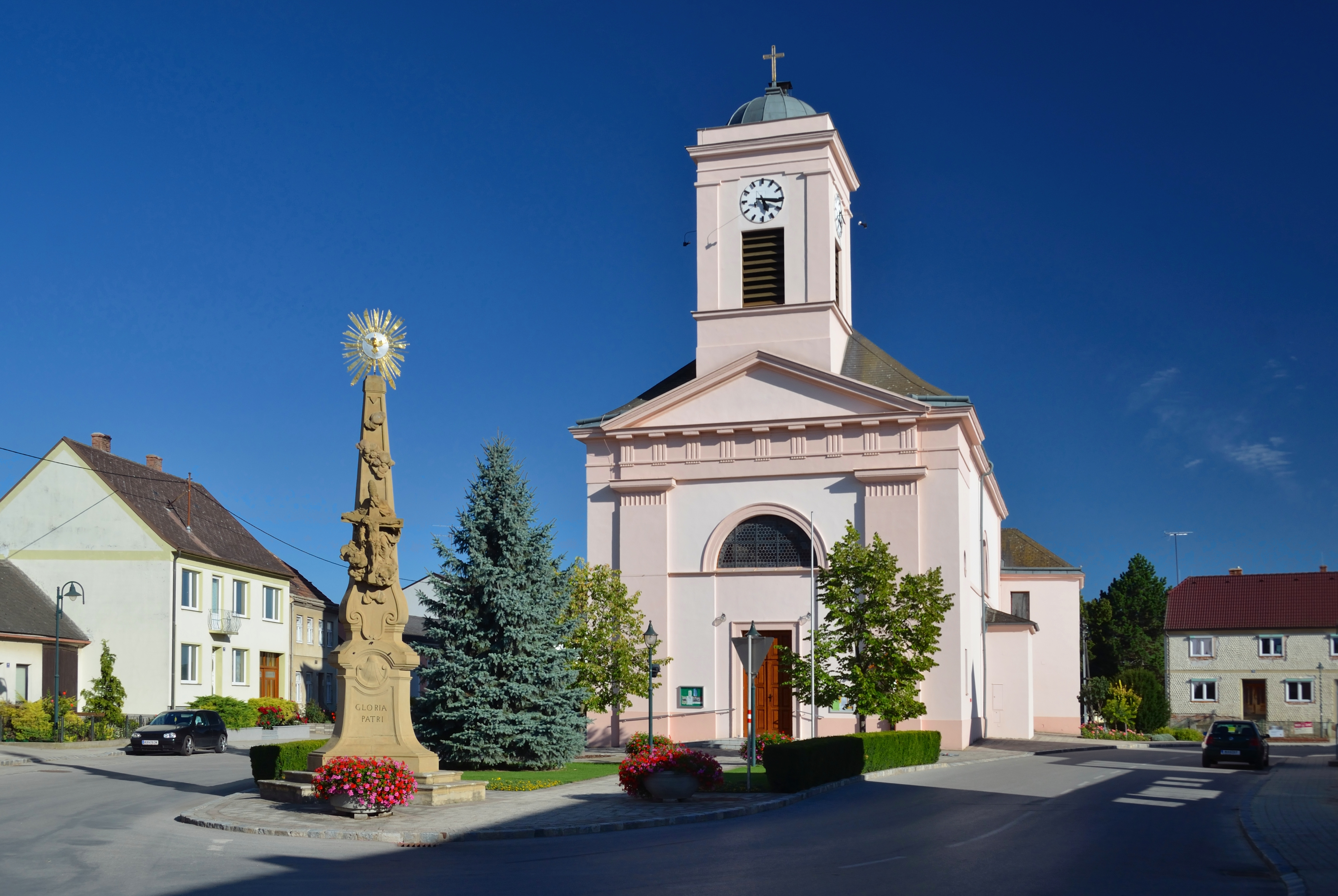 Parish church John the Baptist and Holy Trinity column in Schrattenberg, Lower Austria. Both objects are protected as cultural heritage monuments.